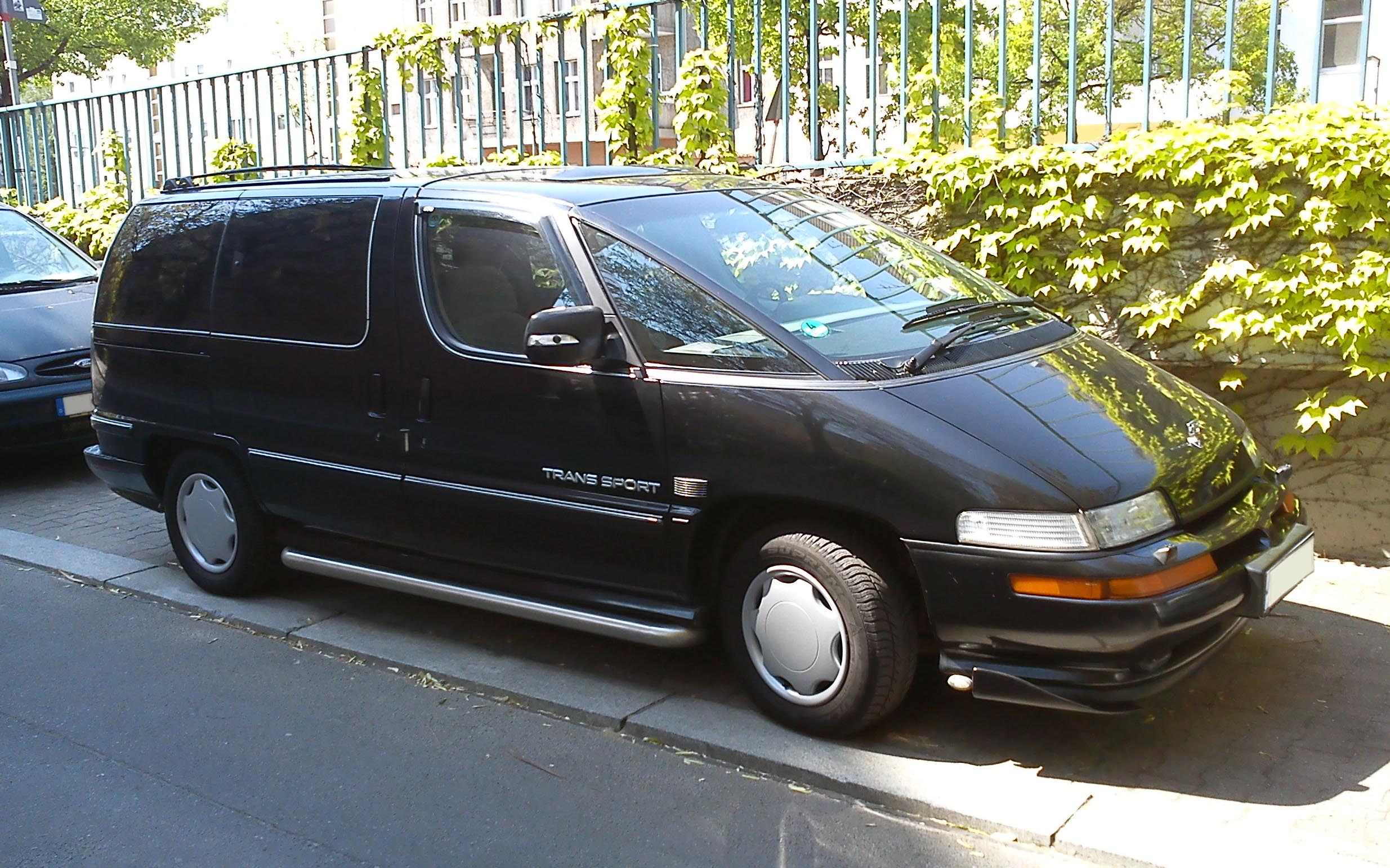 European Pontiac Trans Sport (with Chevrolet hood ornament)